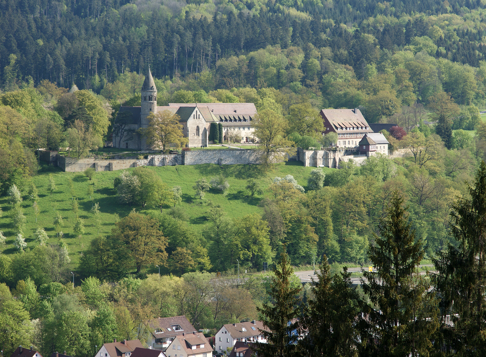 Foto of the Lorch Monastery, taken from the opposite side of the valley south of the River Rems.